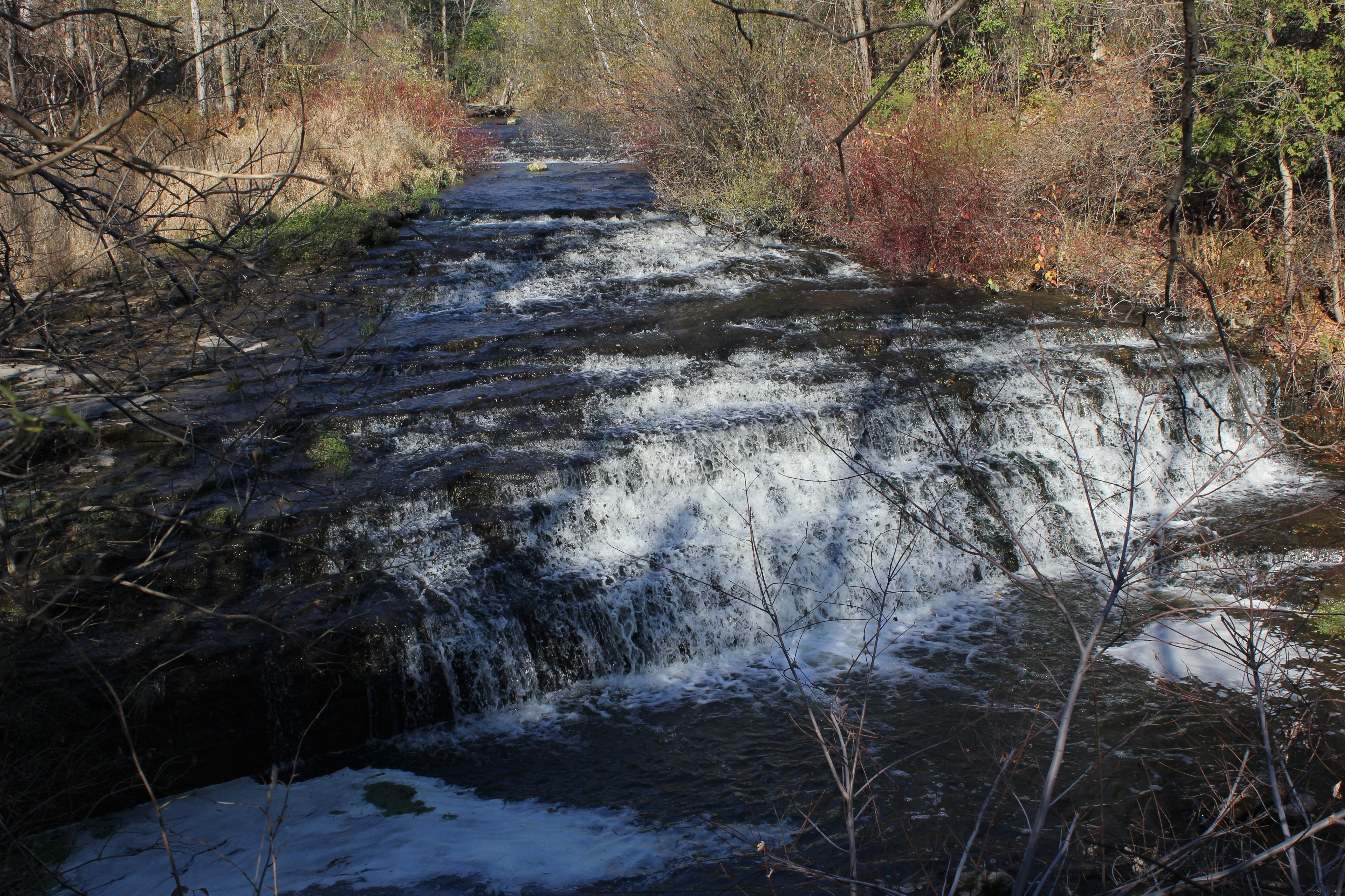 Ontario, Canada, Spencer Gorge Cons. Area. Darnley Cascade